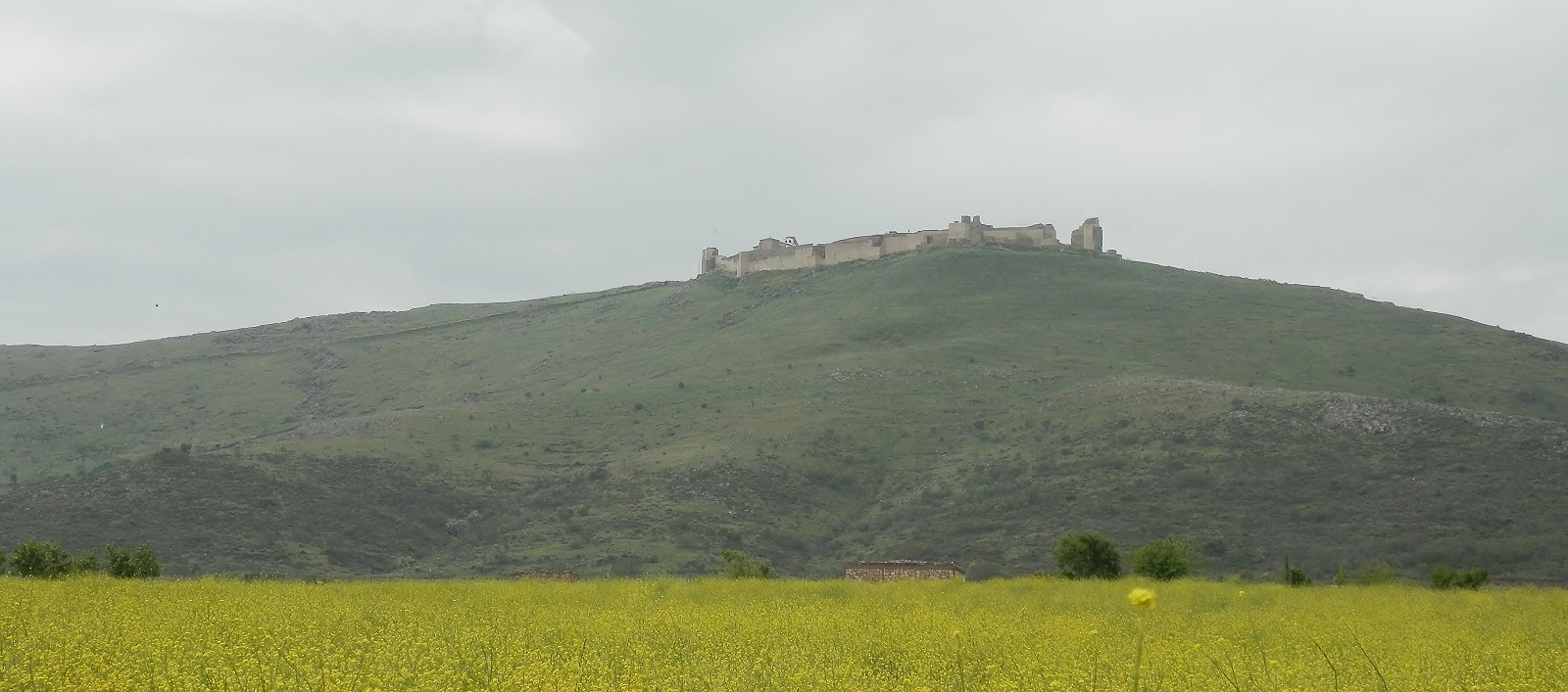 Reina's alcazaba